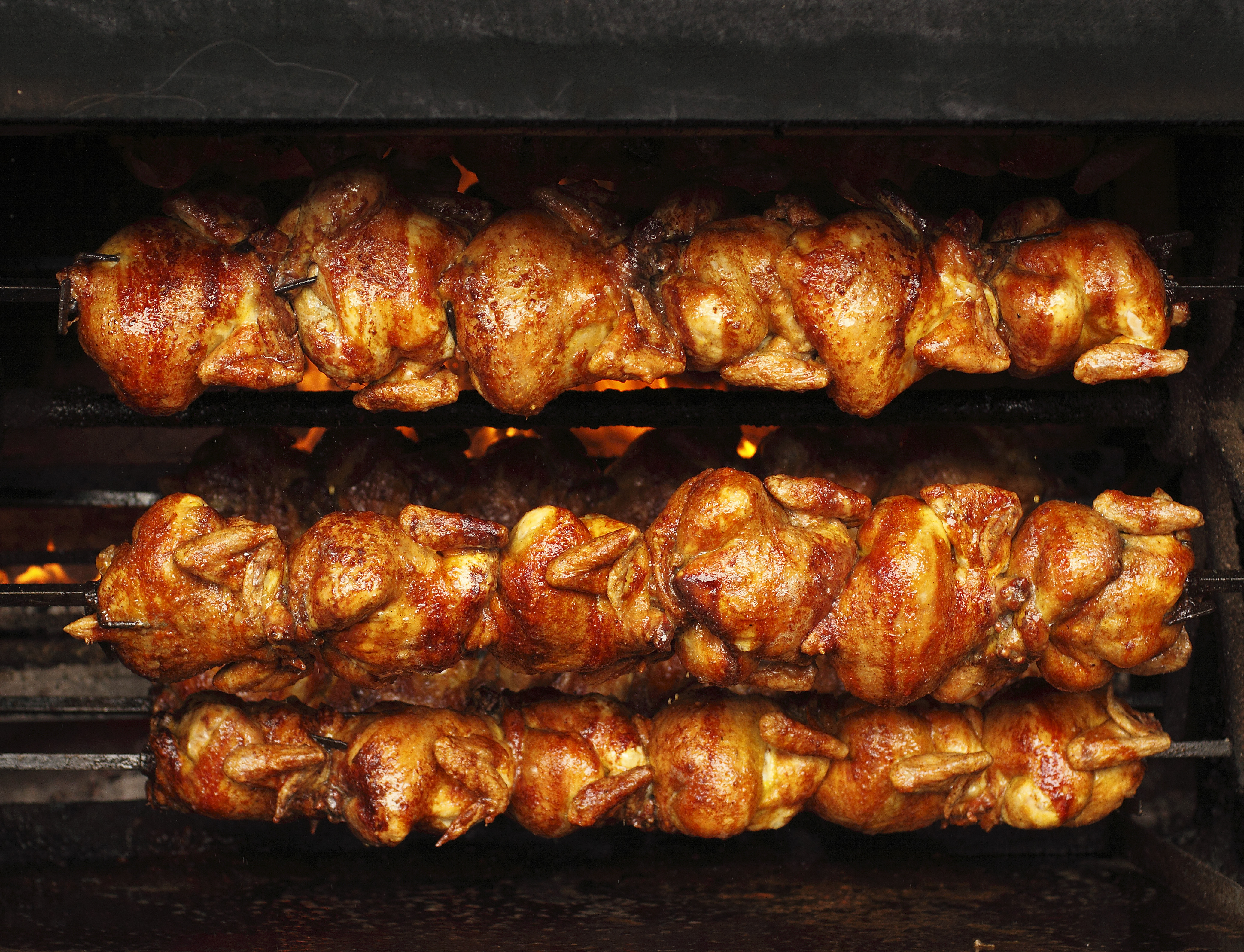 Roasted chickens in Guanajuato, Mexico